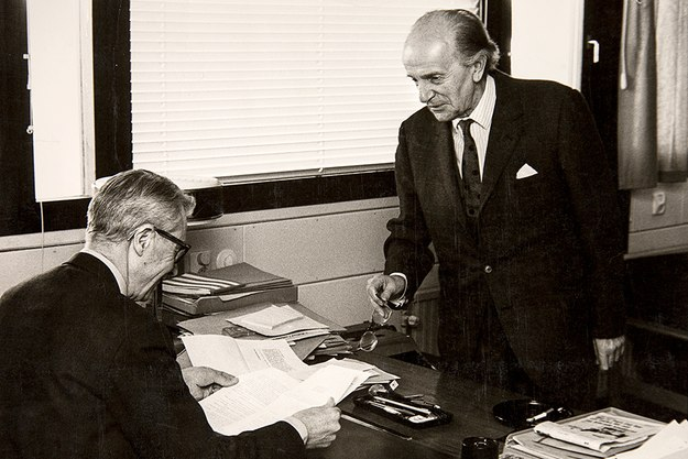 The editor-in-chief of Helsingborgs Dagblad, Ove Sommelius, is visited in the new newspaper building, by the then Moderate leader Gösta Bohman. Late 60s.